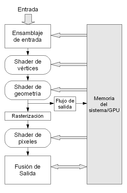 Direct3D Pipeline. Spanish version. You can also get the English version